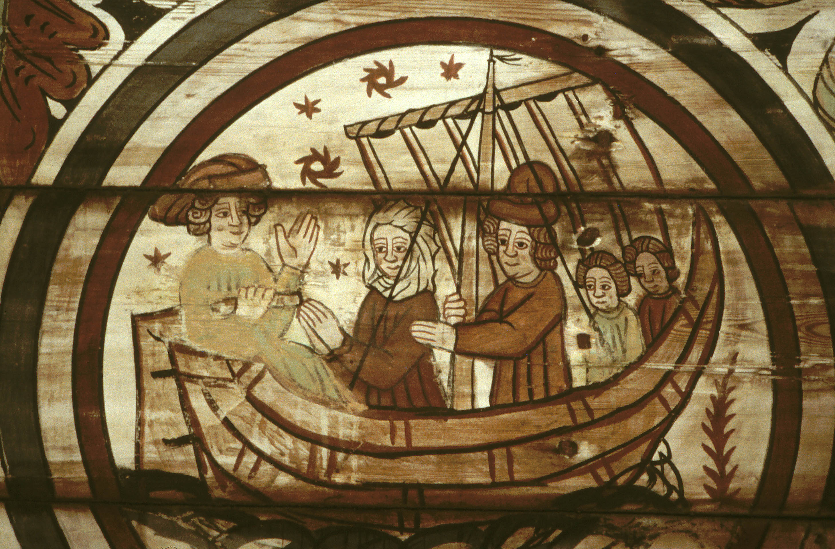 Painting from 1494 in the church of South Råda, Sweden, now destroyed by fire.